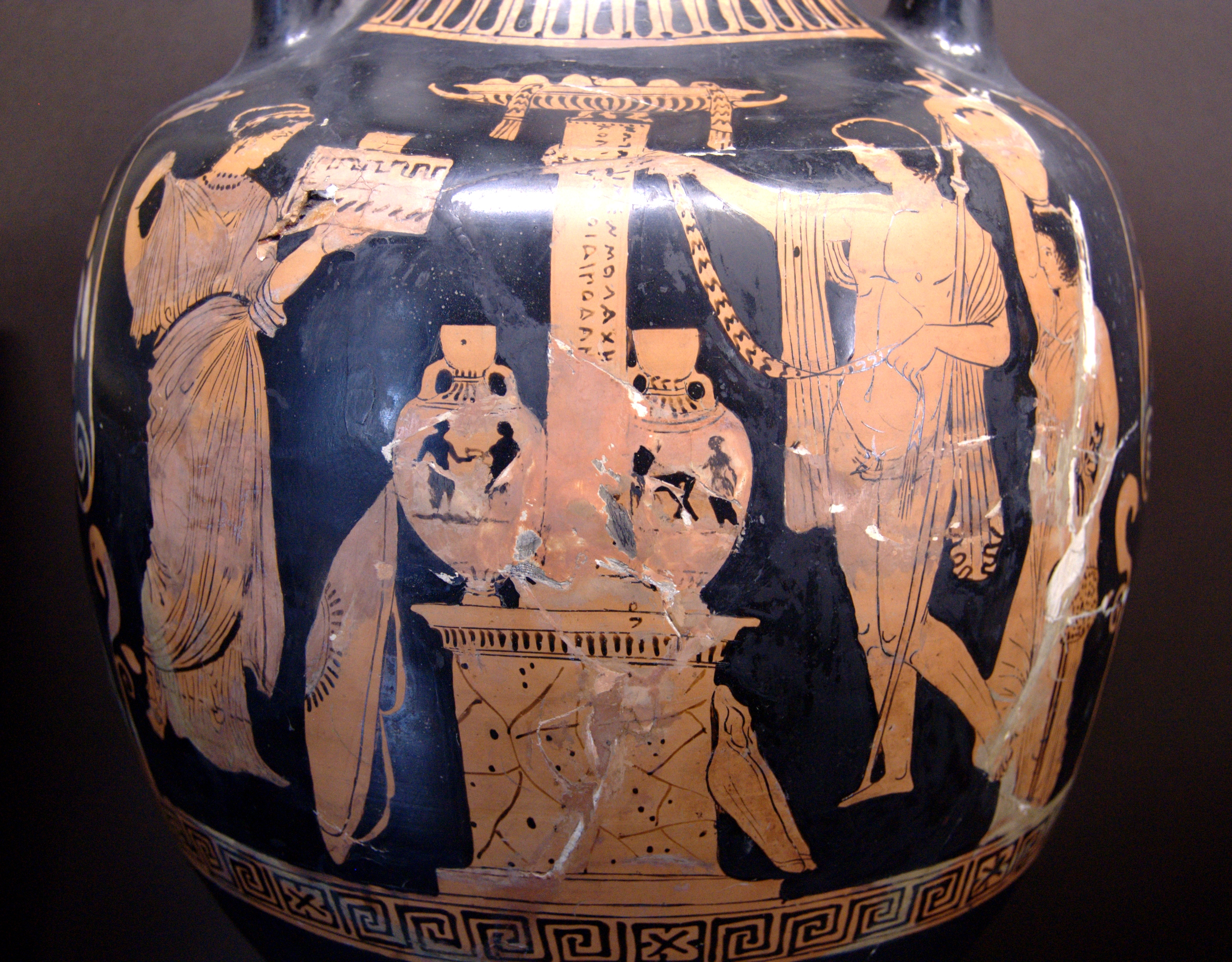 Hero cult (?) ; epitaph dedicated to Oedipus on the stele. Side A of a lucanian red-figure pseudo-panathenaic amphora, ca. 380–370 BC. From Apulia